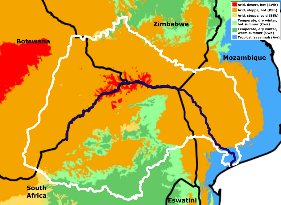 The catchment area of the Limpopo river underlays with climate zones according to Koeppen - Geiger